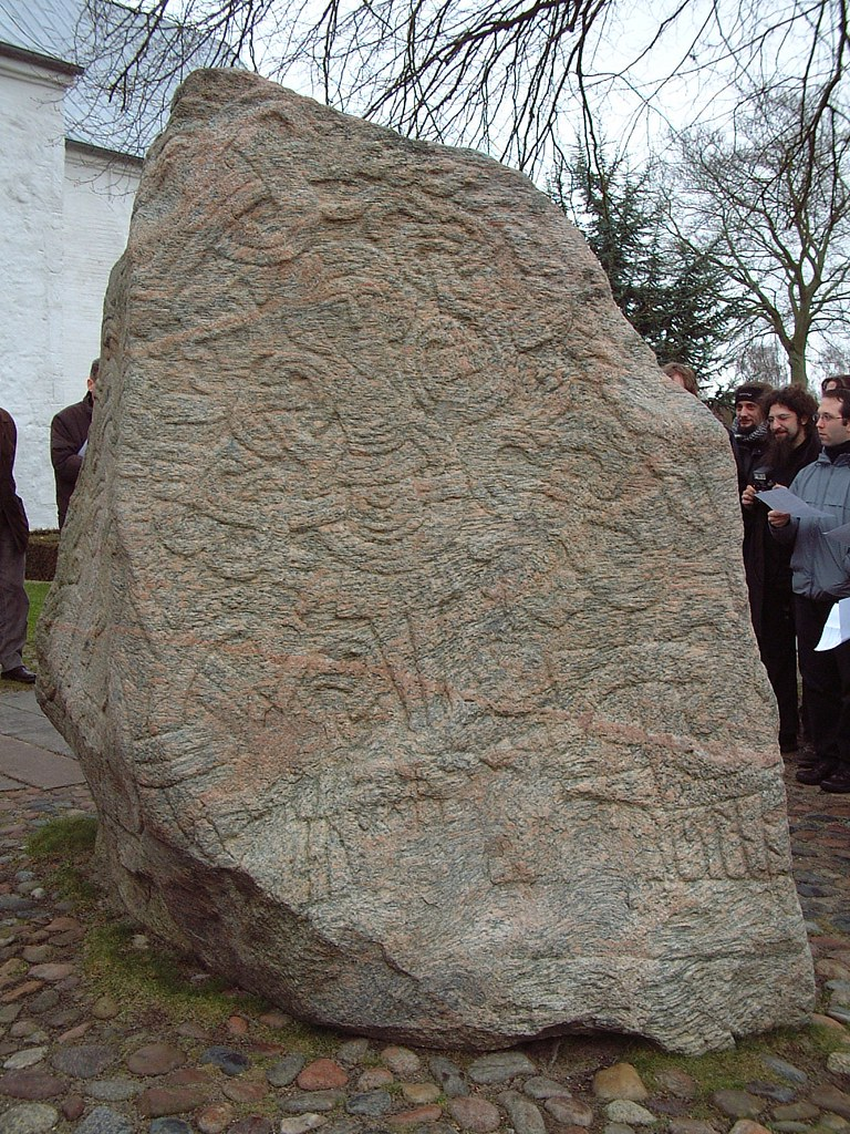 Jelling's Large and Younger Rune Stone: "King Harald commanded that stone to be erected to commemorate Gorm, his father, and Thyra, his mother, the Harald, who subjugated all Denmark and Norway and made the Danes Christians. "